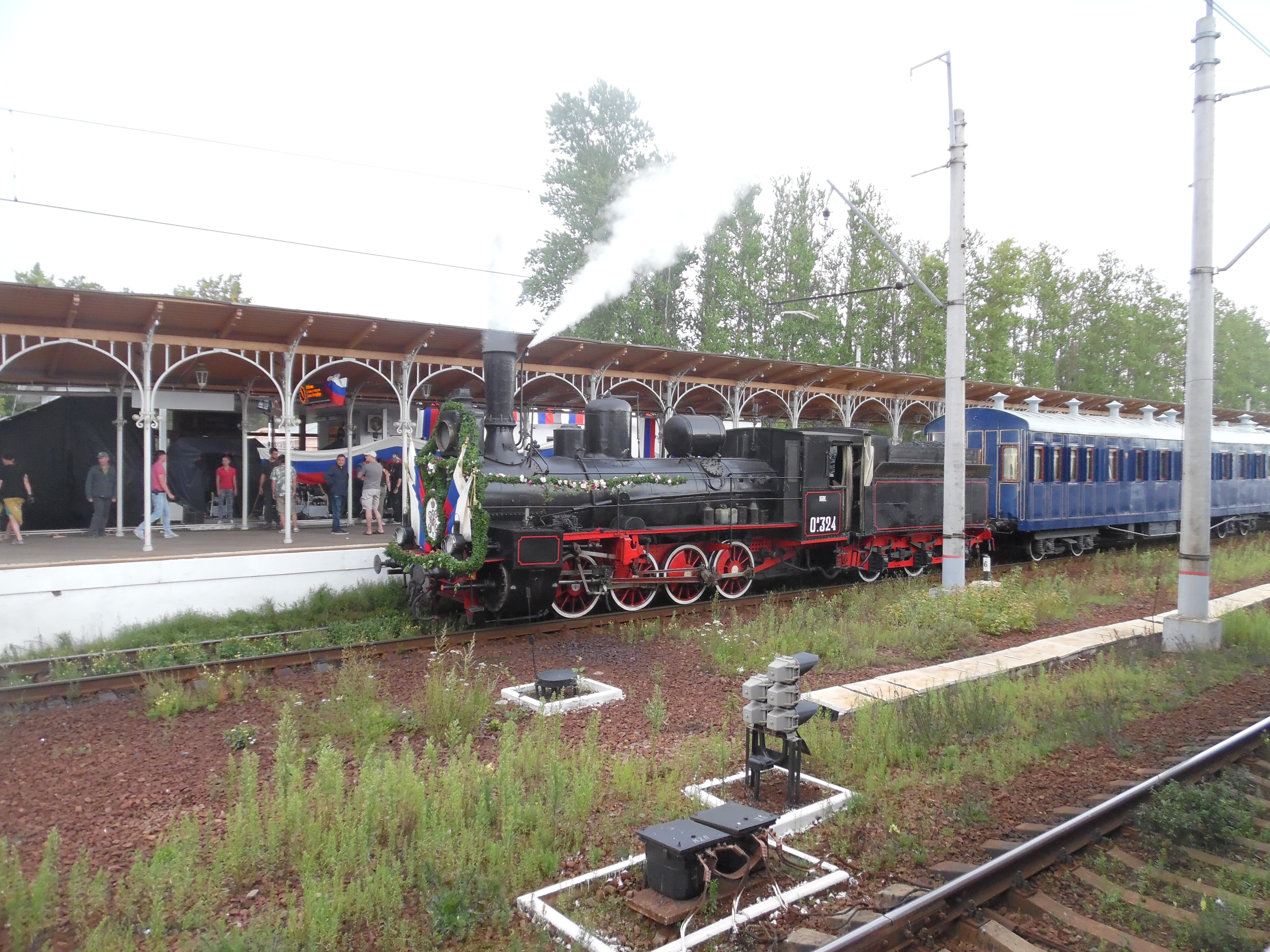 Steam locomotive OV 324 on filming, railway station New Peterhof